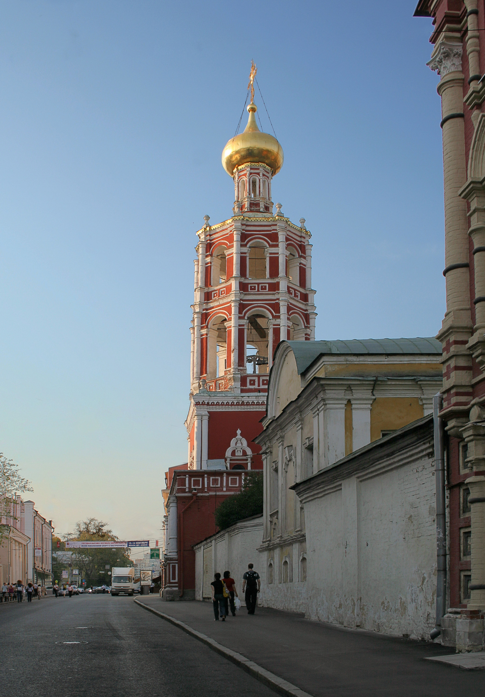 Church of the Intercession above the monastery gates, with a belltower, about 1695